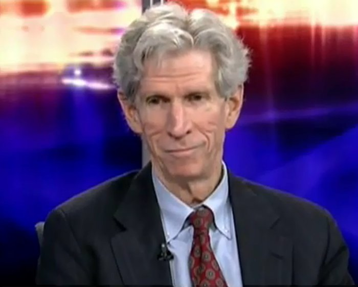 Gareth Porter giving an interview on RT America.